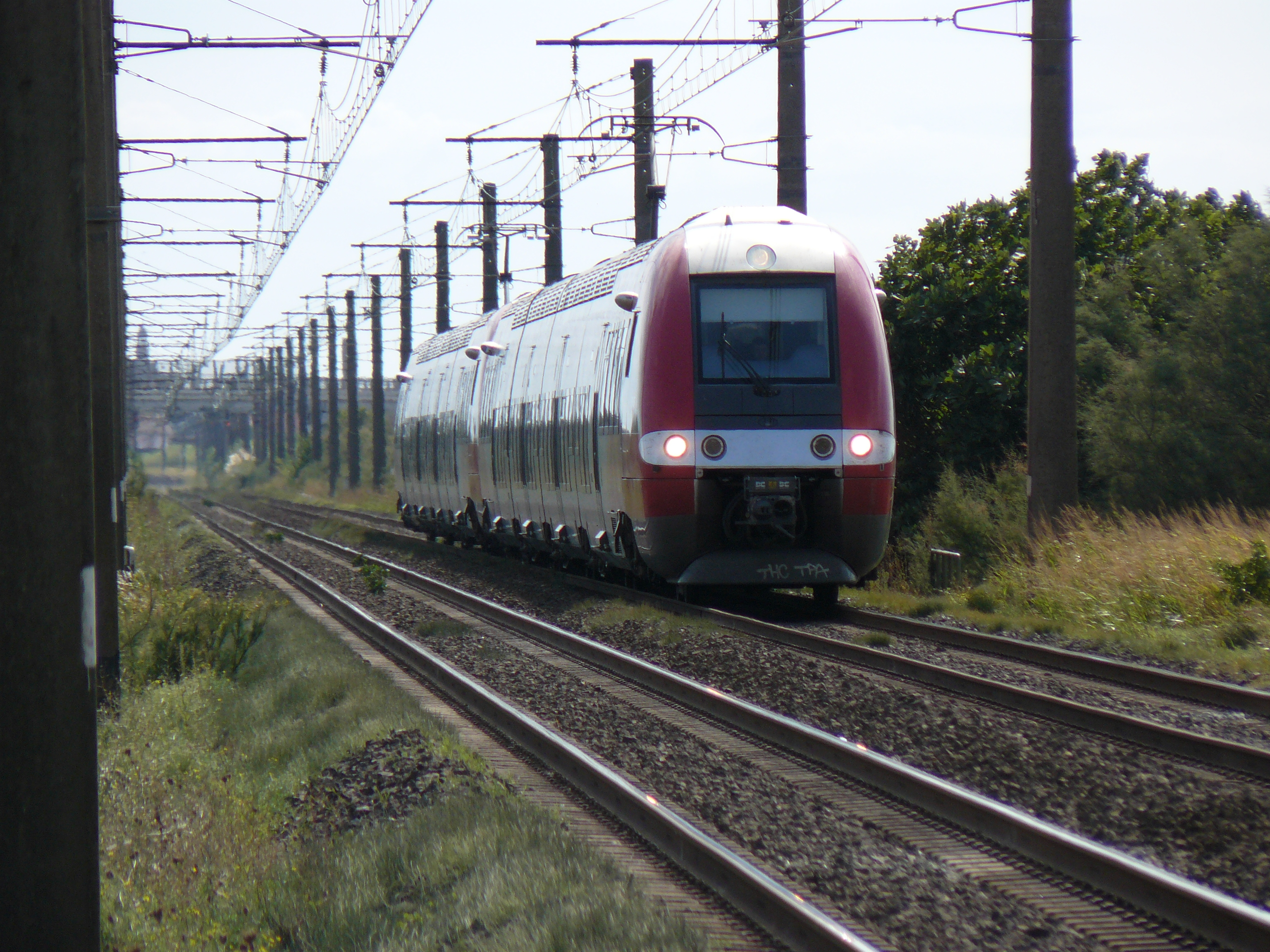 A view of the Languedoc Roussillon livery for its trains in France